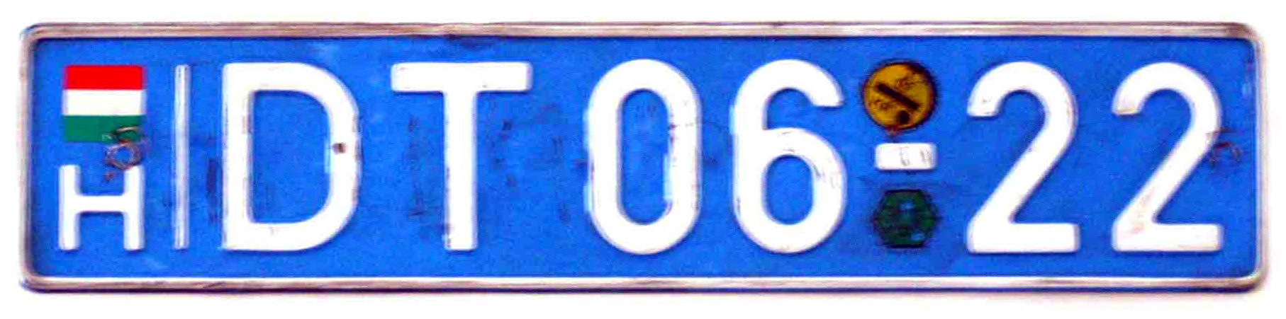 Registration plate of the diplomatic corps (CD) in Italy.